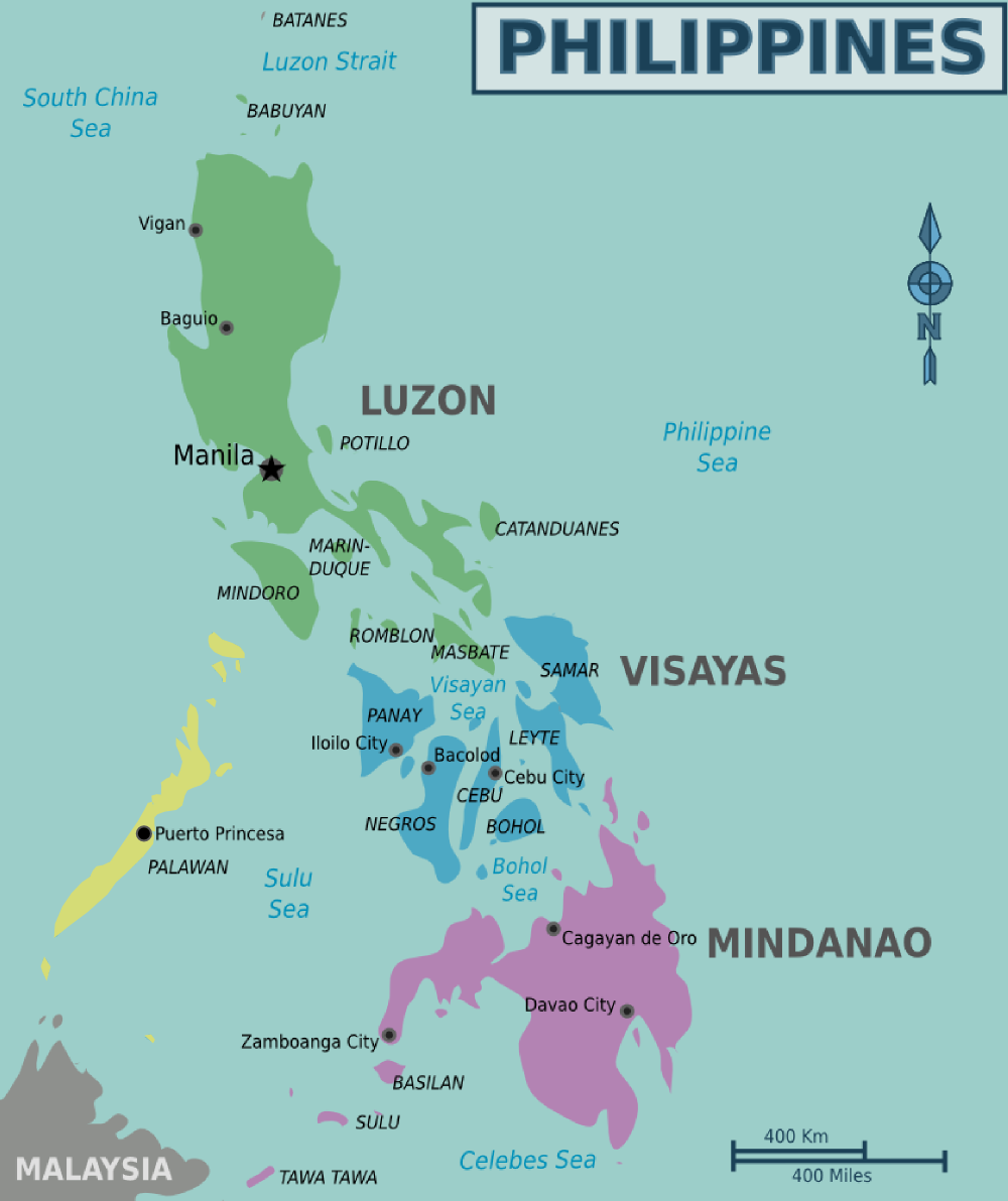 Map of the Philippines.